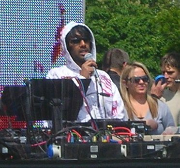 Nihal talking to the crowd at Radio 1's Big Weekend in Preston. Also available on Flickr